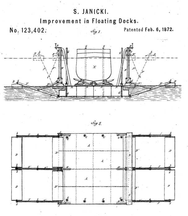 Stanislas Janicki, "Improvement in floating dock", 6 February 1872.